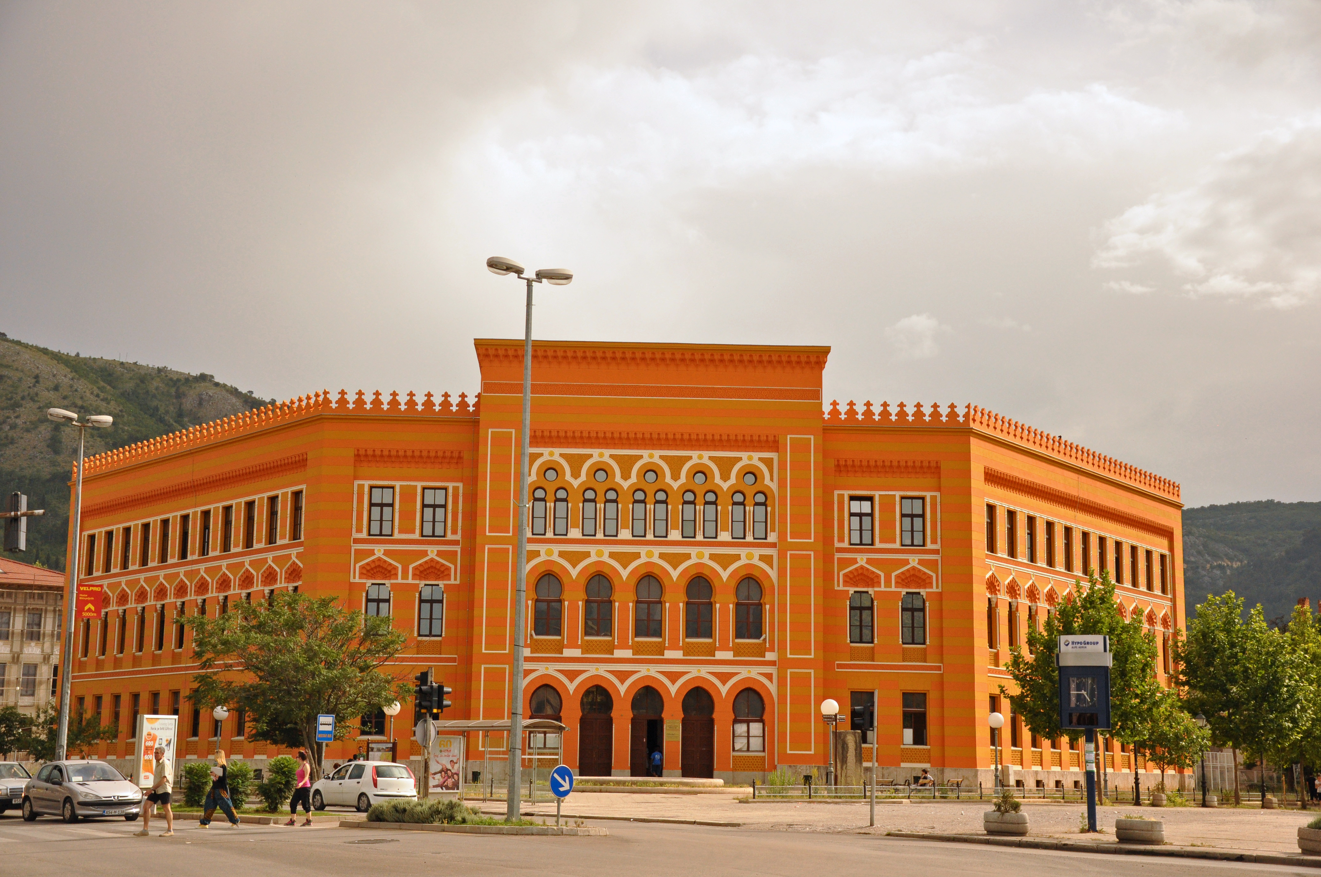 Gimnazija Mostar on 7 June 2011.